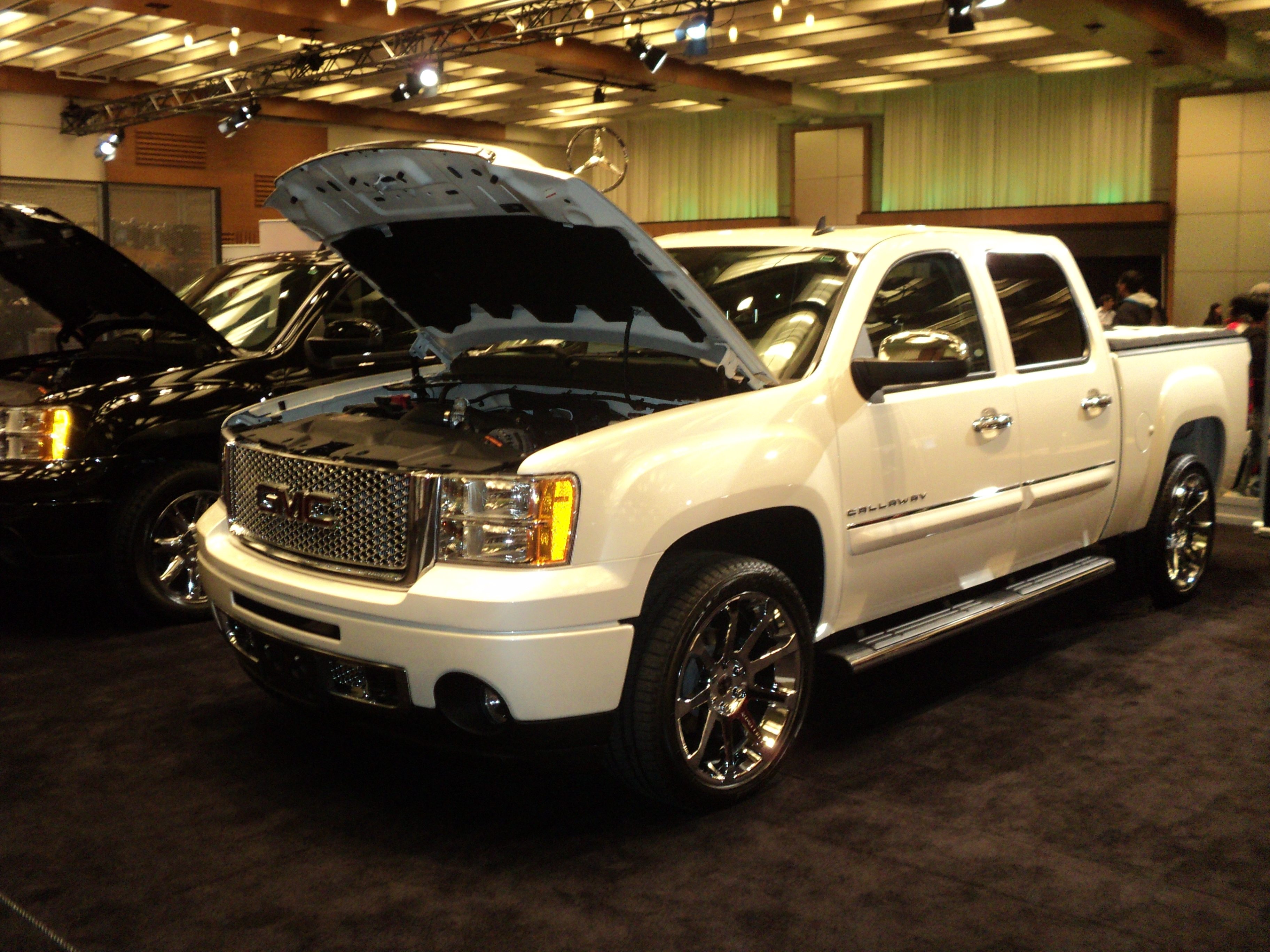 Callaway now modifies GM pick-up trucks. One shown on display at the 2013 Canadian International Autoshow.